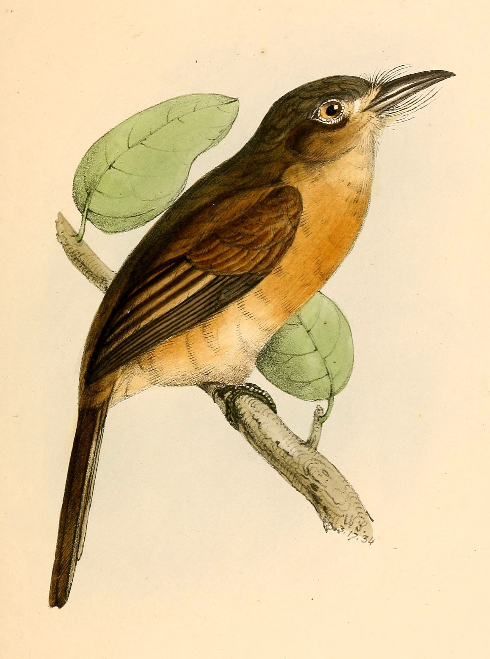 Lypornix rubecula = Nonnula rubecula rubecula (Subspecies of Rusty-breasted Nunlet)